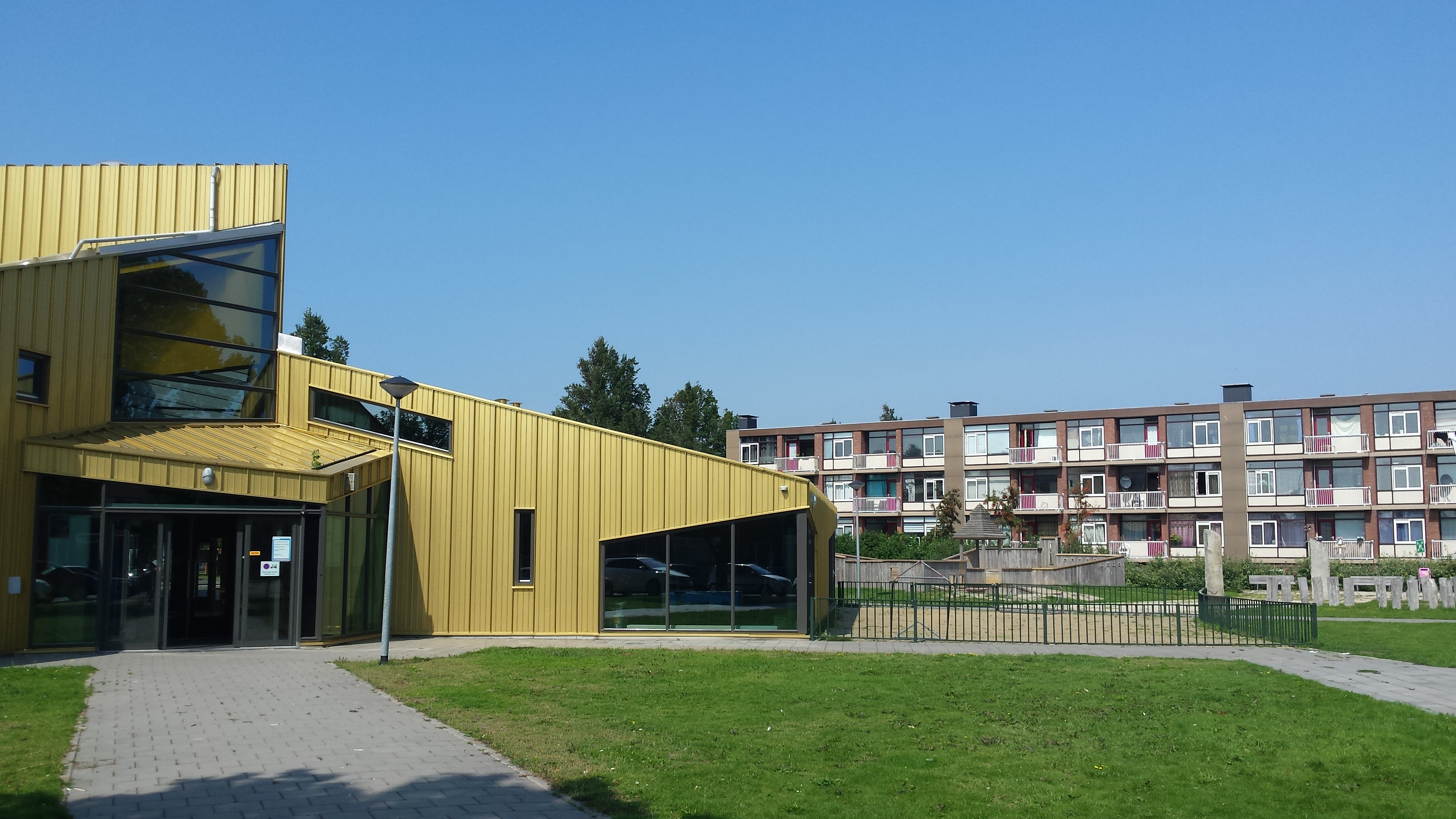 New Den Helder